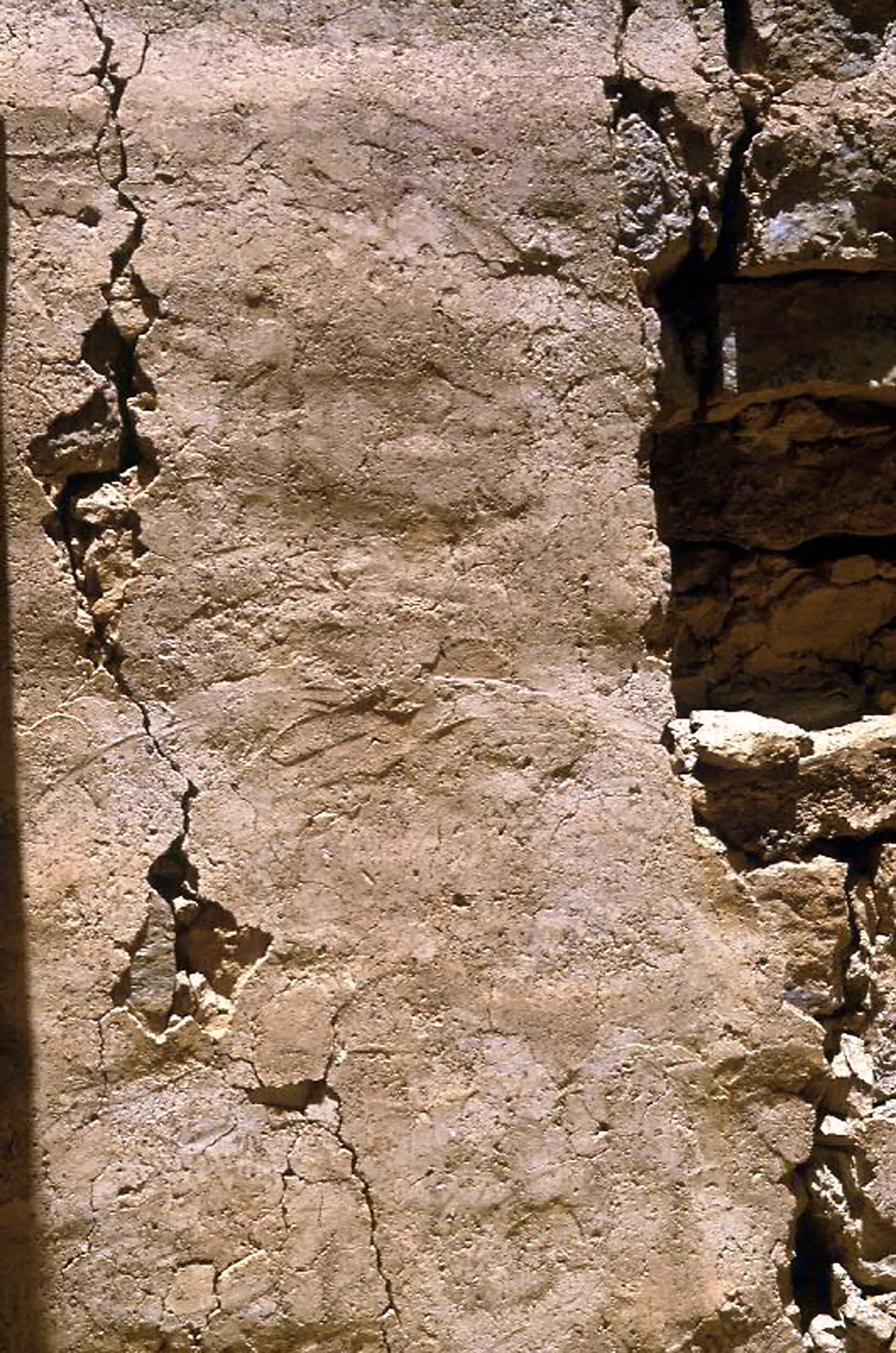 Qasr Bshir: A rendered surface surviving in the south tower. The marks of the plasterer's float are clearly visible. Looking SW